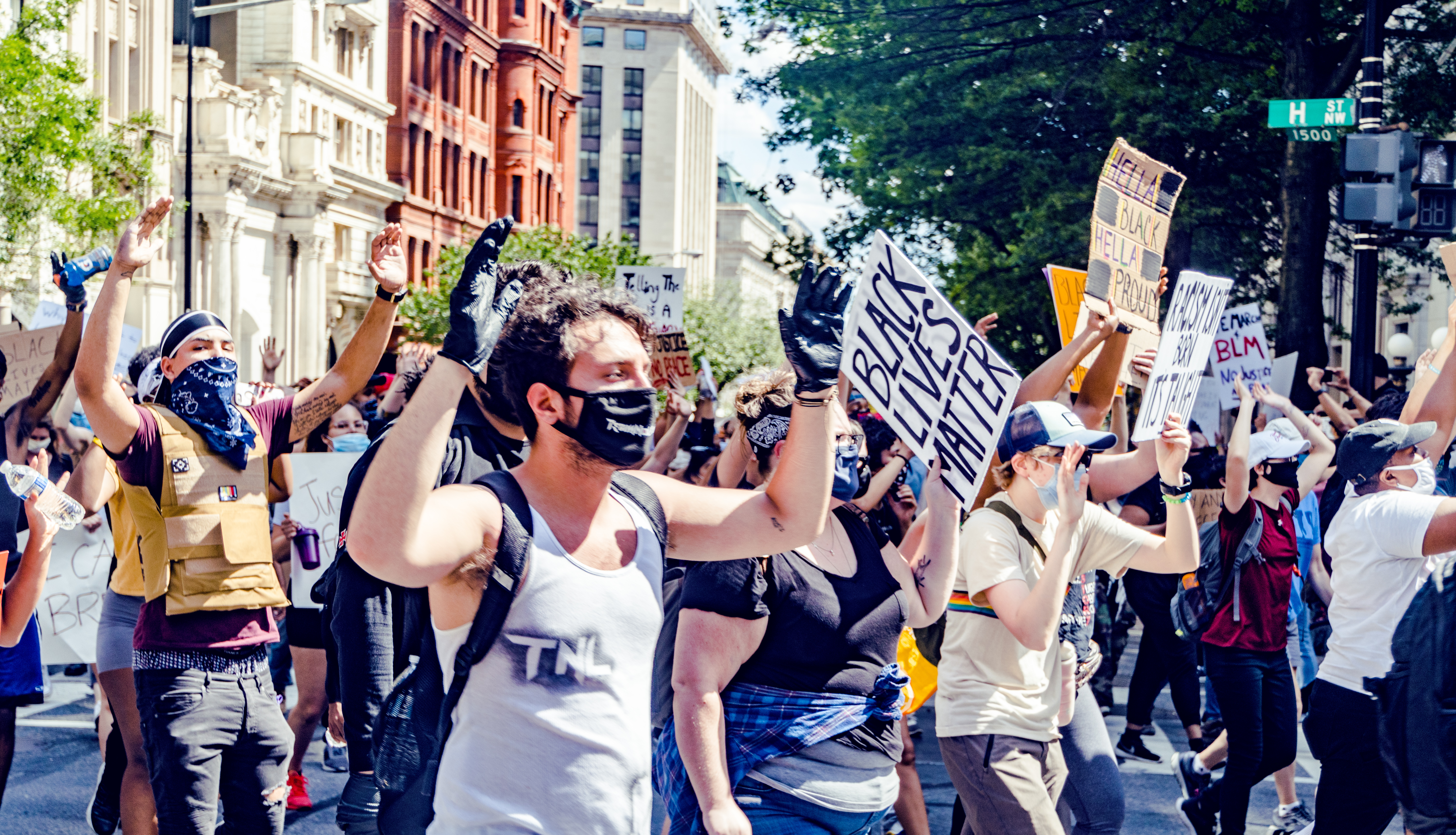 2020.05.31 Protesting the Murder of George Floyd, Washington, DC USA 152 35028